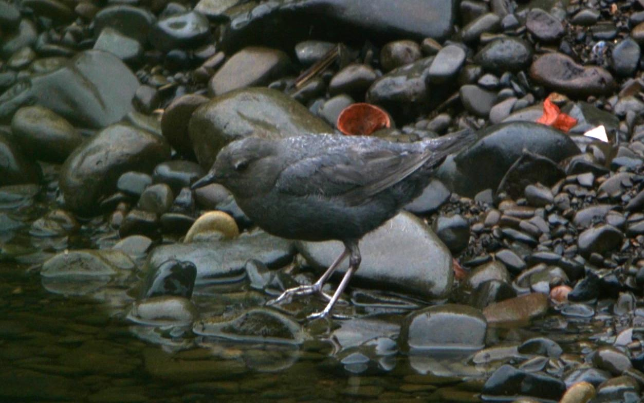 Oregon Trip 6/22/14 through 7/3/14